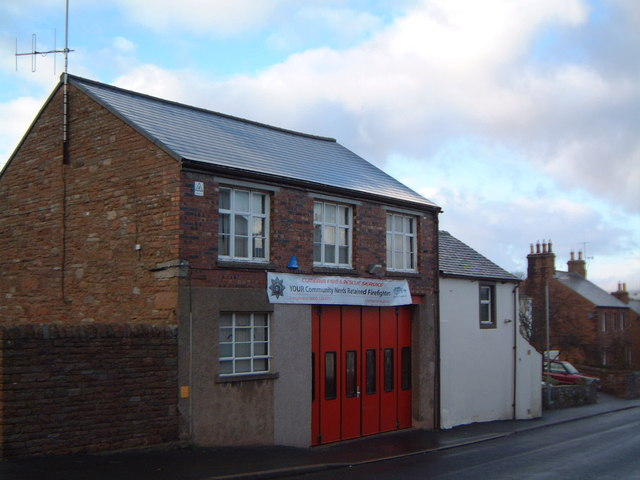 Lazonby Fire Station Retained (part time) Firemen man this station.